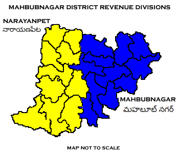 Mahbubnagar District Revenue divisions